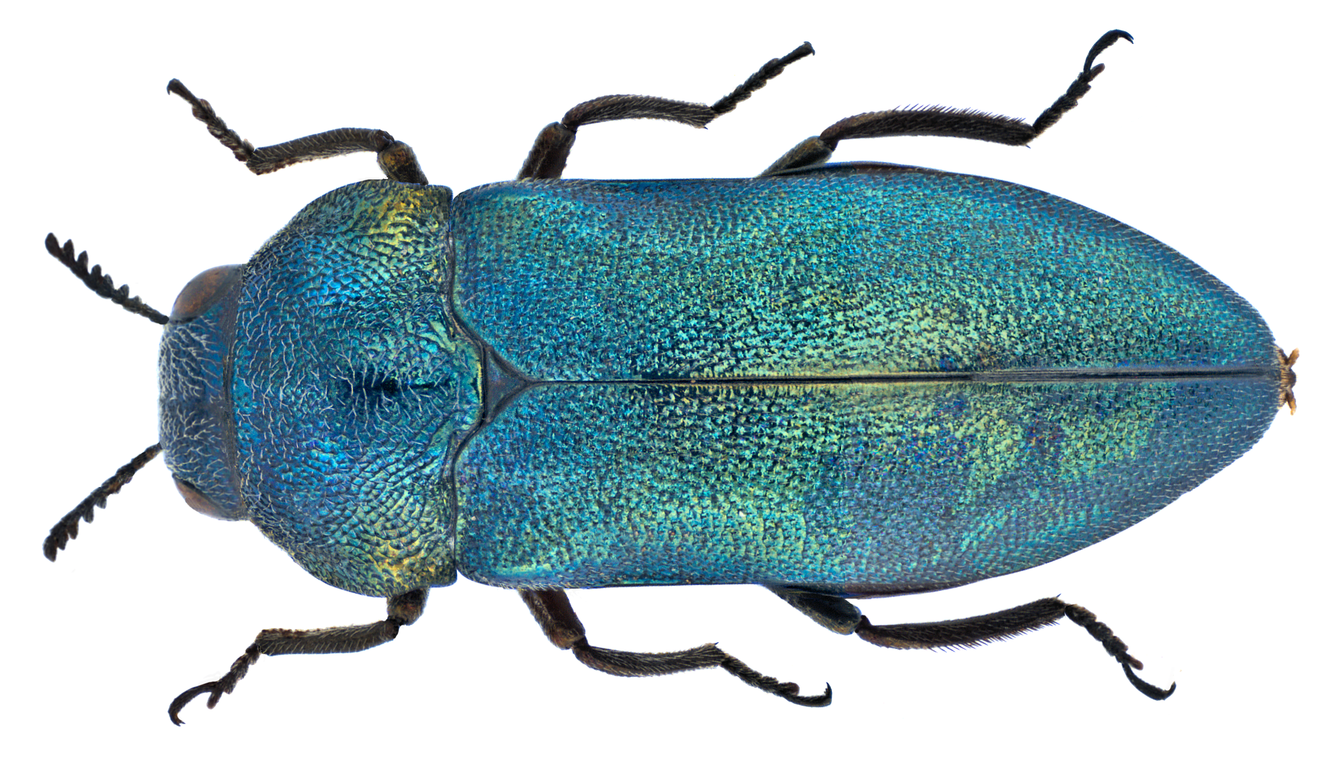 Family: Buprestidae Size: 6,9 mm Location: Cyprus, Larnaca Distr., Alaminos, environment Club Aldiana leg. U.Schmidt, 4.-14.V.2014; det. M.Niehuis, 2014 Photo: U.Schmidt, 2014